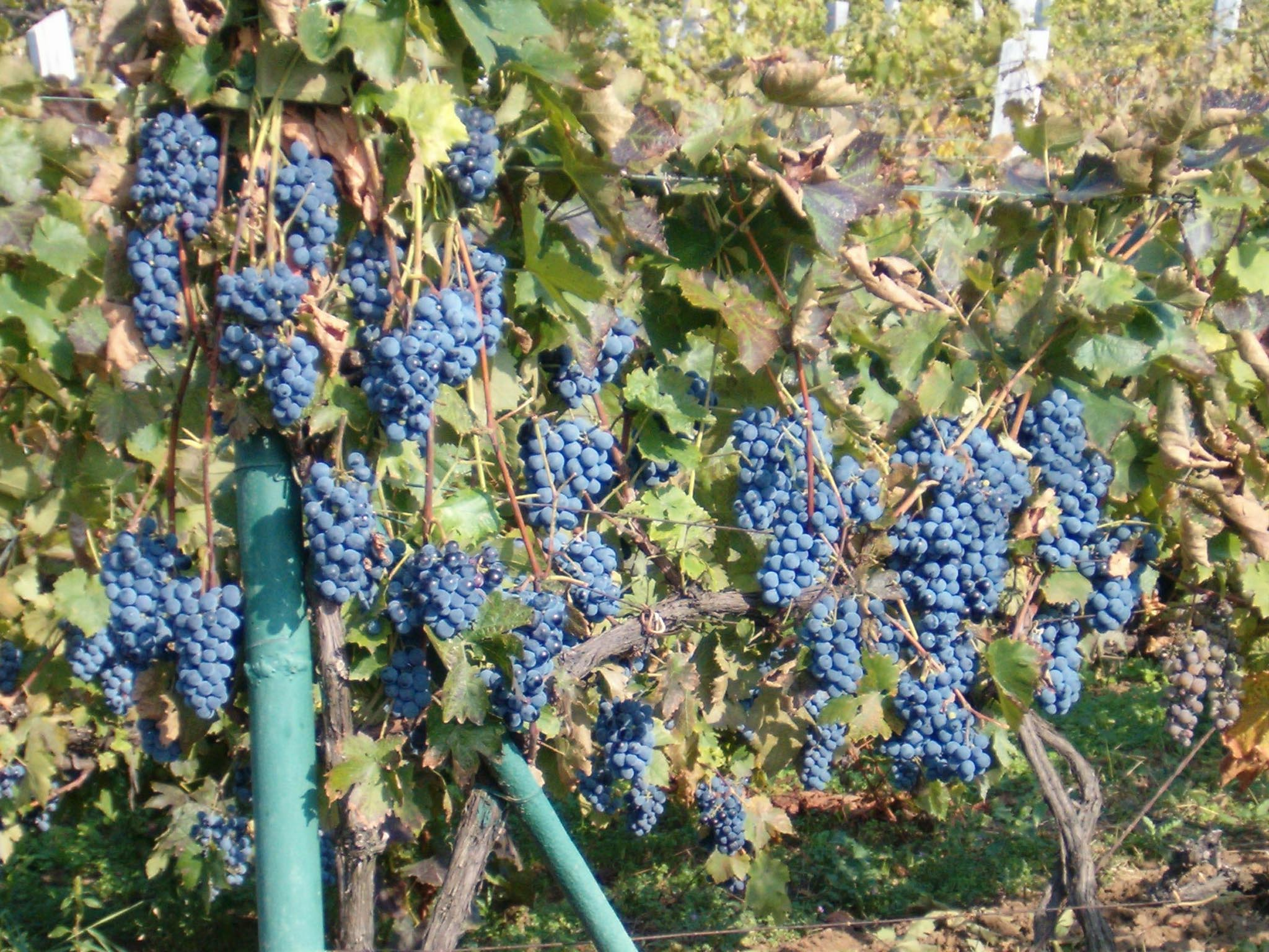 Vineyard in the Mátra Mts. (Zagyvaszentjakab, Szurdokpüspöki, Hungary)